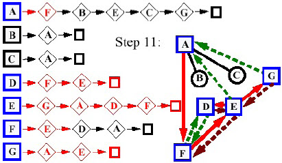 Dry run Depth-first search Algorithm in Graph, step 11